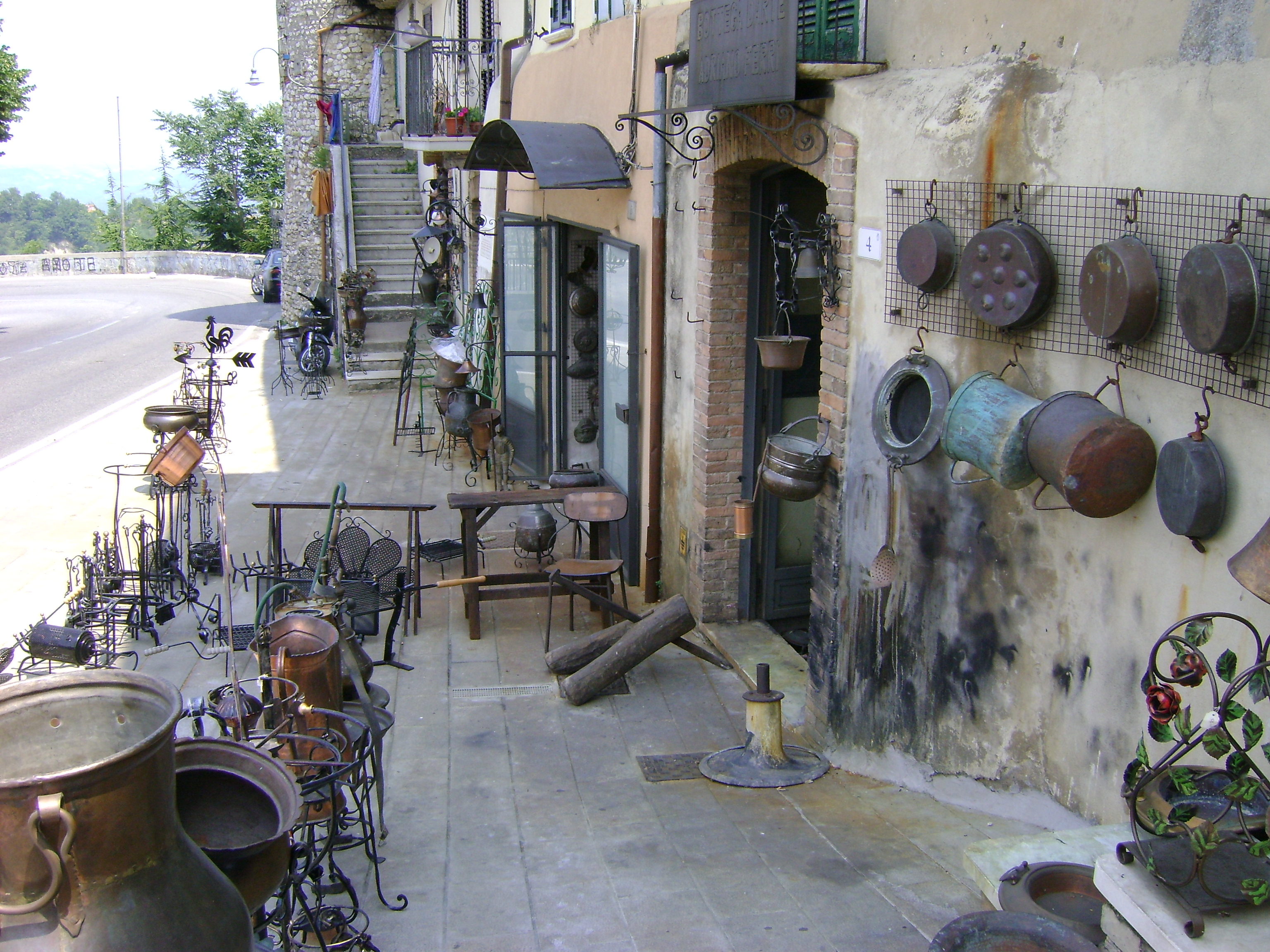 Copper shops in Guardiagrele, in the province of Chieti, Abruzzo